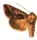 From Plate CCXXXVI